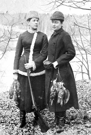 Alexandra Chetverikova and Teresa Otto on hunting.